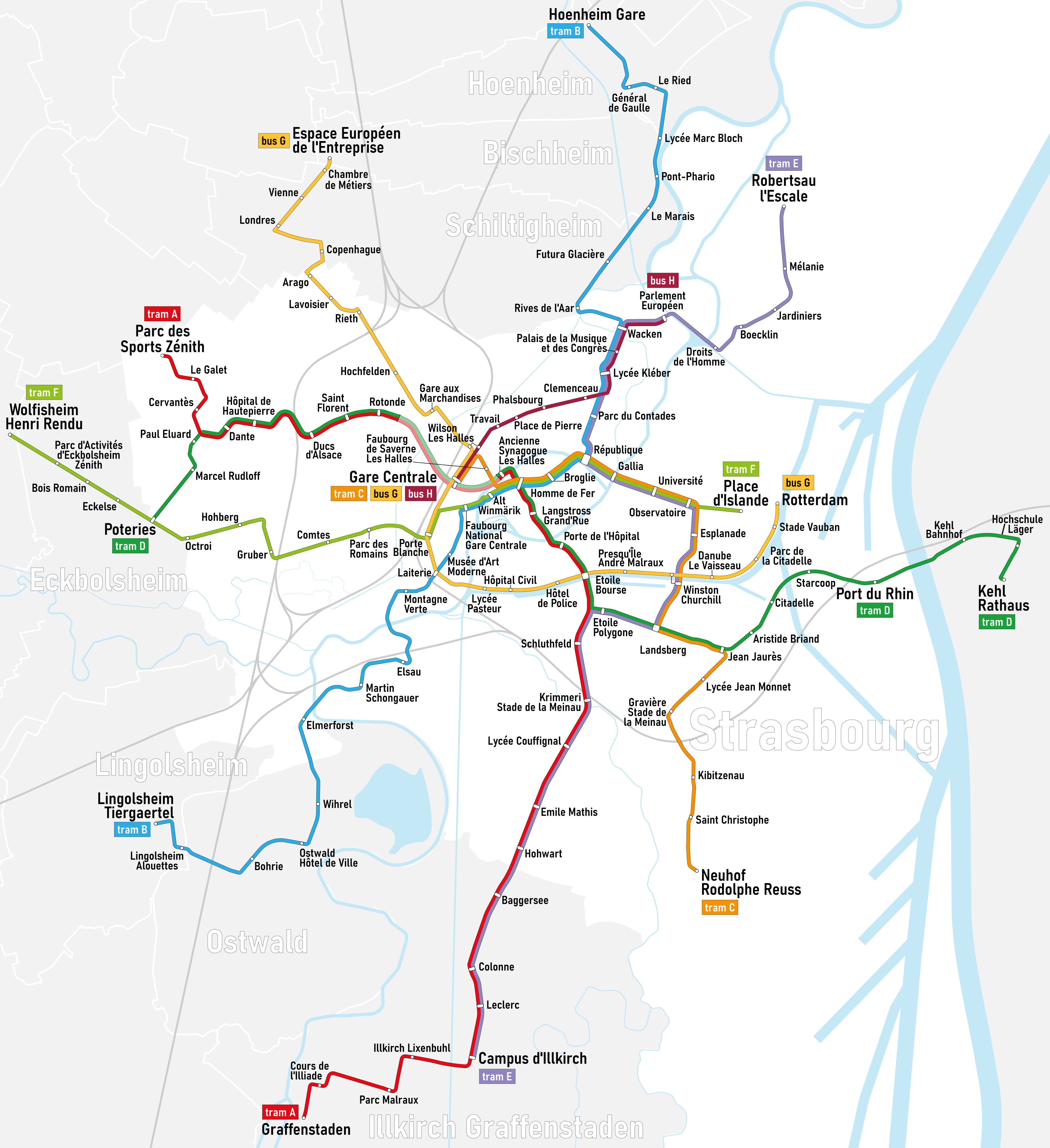 Map: Strasbourg streetcar and Bus Rapid Transit network